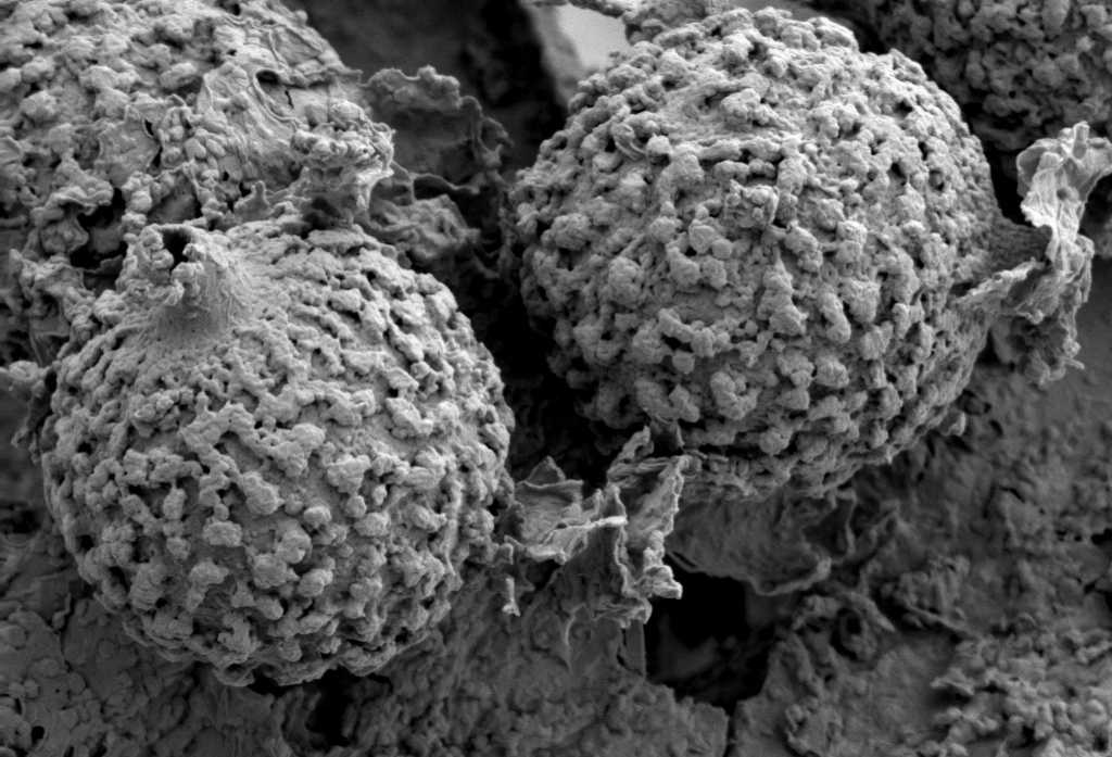 Electron micrograph of spores of the puffball fungus Bovista pila Berk. & M.A. Curtis.